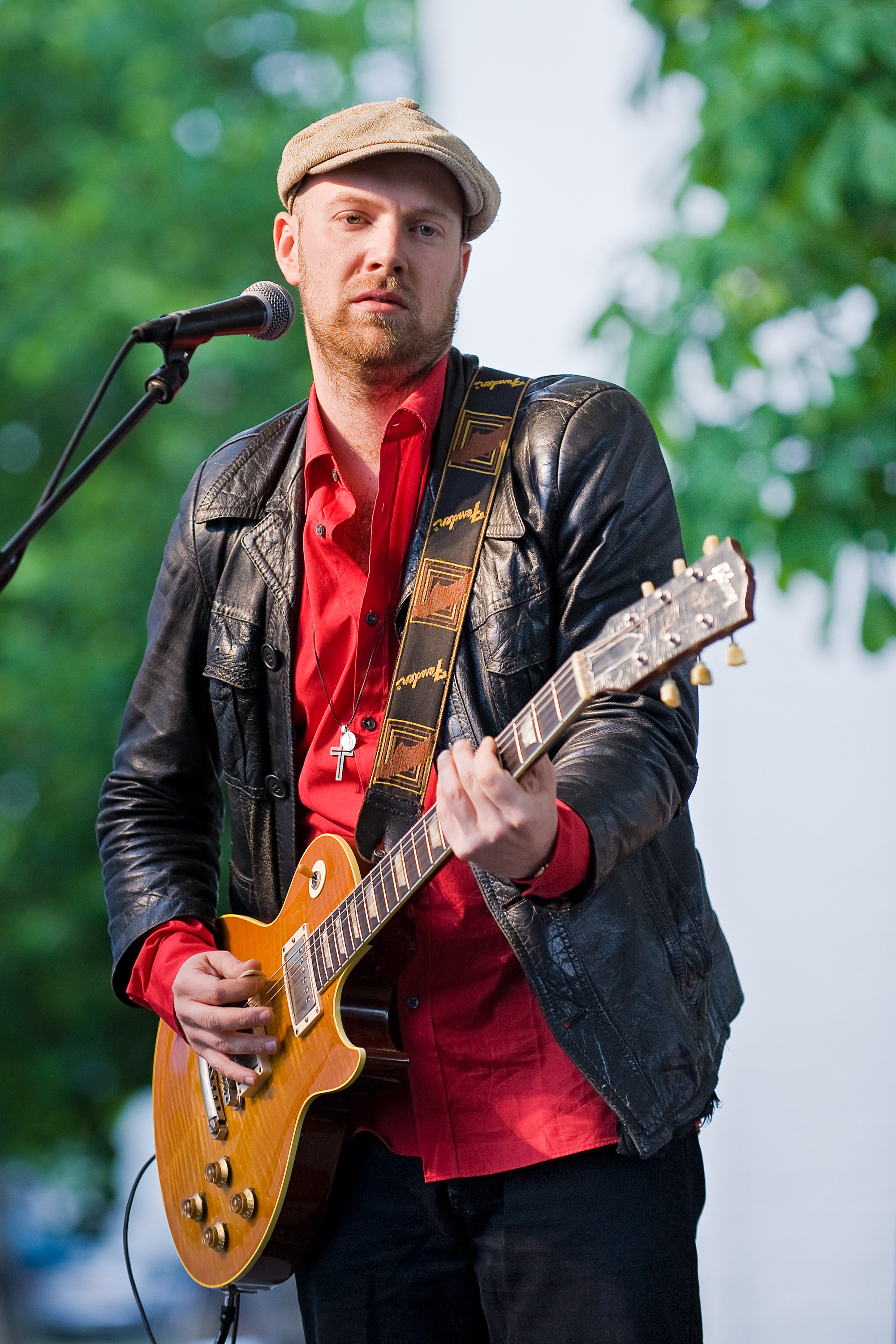 Henrik Freischlader in the concert Sonntags ans Schloss 2009 in Saarbrücken, Germany